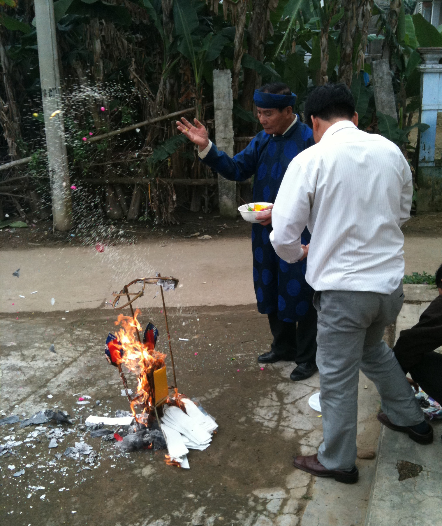 An elder gentleman scatters rice and candies to the ground as an offering burns. This is done in order to invite the spirits of ancestors and relatives to join the living family during the upcoming Tet holiday.